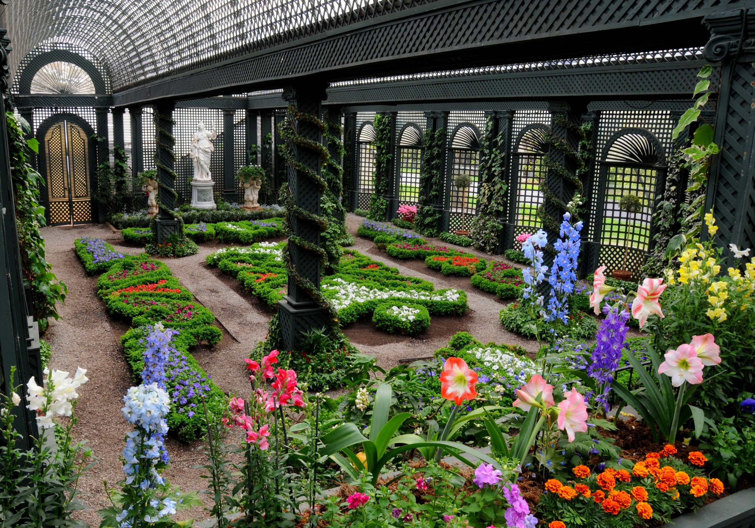 The former French Garden at Duke Gardens in New Jersey. The 'French Garden' was one of the eleven themed Indoor Display Gardens created by Doris Duke and meticulously maintained in greenhouses at Duke Gardens. The Duke Gardens Foundation's board of Trustees has closed and removed them "to conserve resources" — contrary to garden and landscape design history advocates calling for their preservation as landmark gardens. Commentary on history and future Spring 2008 Note: these eleven gardens are now lost, as far as it is possible to know. The trustees have permanently closed Duke Gardens. Saying "renovated gardens will reopen" was deliberately misleading and sloppy language that concealed the truth. Some sort of garden will be at Duke Farms. Doris Duke's indoor display gardens will not. The glorious indoor display gardens of Doris Duke's Estate in NJ will be destroyed unless the Trustees are persuaded to reconsider before May 25th, 2008: see the Flickr group Save Duke Gardens. Please use the Save Duke Gardens web site to easily email your newspaper and the Trustees if you wish these gardens to remain intact. These gardens are a labor of love and a work of art. Doris Duke spent years creating them, and would sometimes spend 16 hours a day working in them. They are being dismembered only 15 years after Doris Duke's death, on the 50th anniversary of their creation, by the Estate's trustees, who do not feel the gardens fit in with a modern Green vision. — Really ? The Trustees tell us the Gardens will re-open in a couple years. But what this really means is that a different orchid conservatory will reopen. Not this elaborate set of interconnected Indoor Display Gardens. They will be lost.